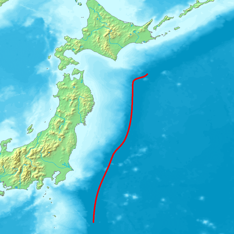 Map of northeastern Japan (main islands Honshu and Hokkaido) and the sourrounding seas. The red line marks the course of the axis of the Japan Trench, a deep sea trench off the east coast of Japan, which is a bathymetric expression of the subduction of the Pacific Plate beneath the Eurasian Plate. Its northern extension ist the Kuril Trench.